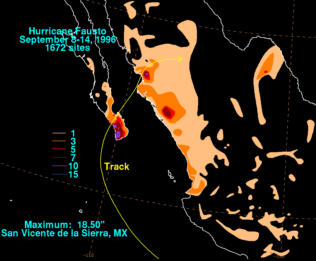 Rainfall produced by Hurricane Fausto during September 1996.